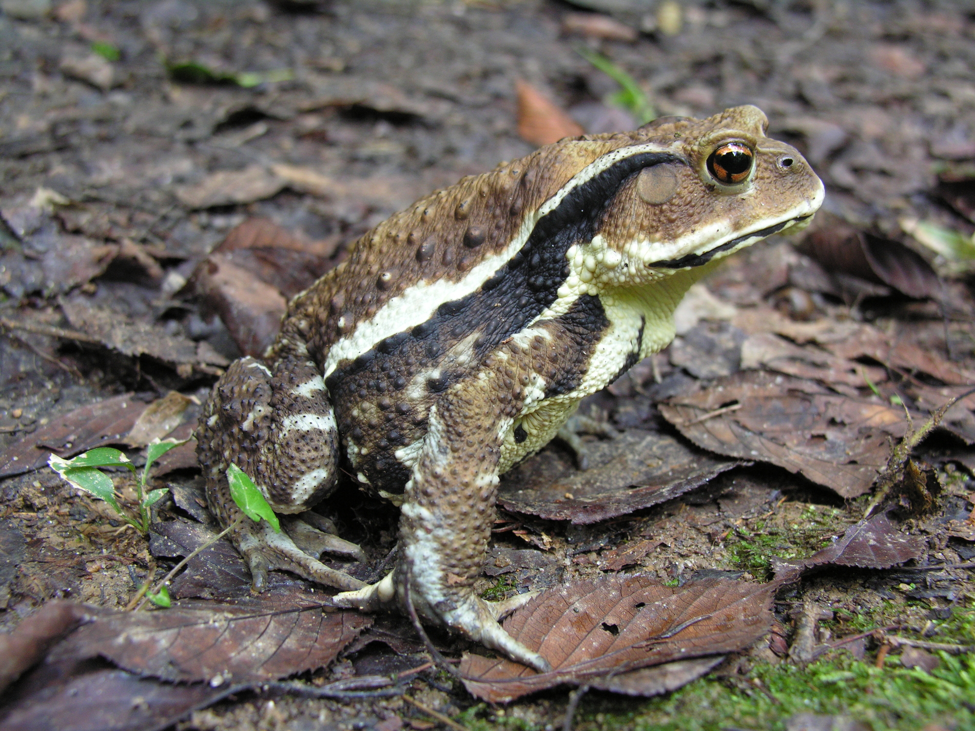 Japanese Common Toad, Aichi Japan